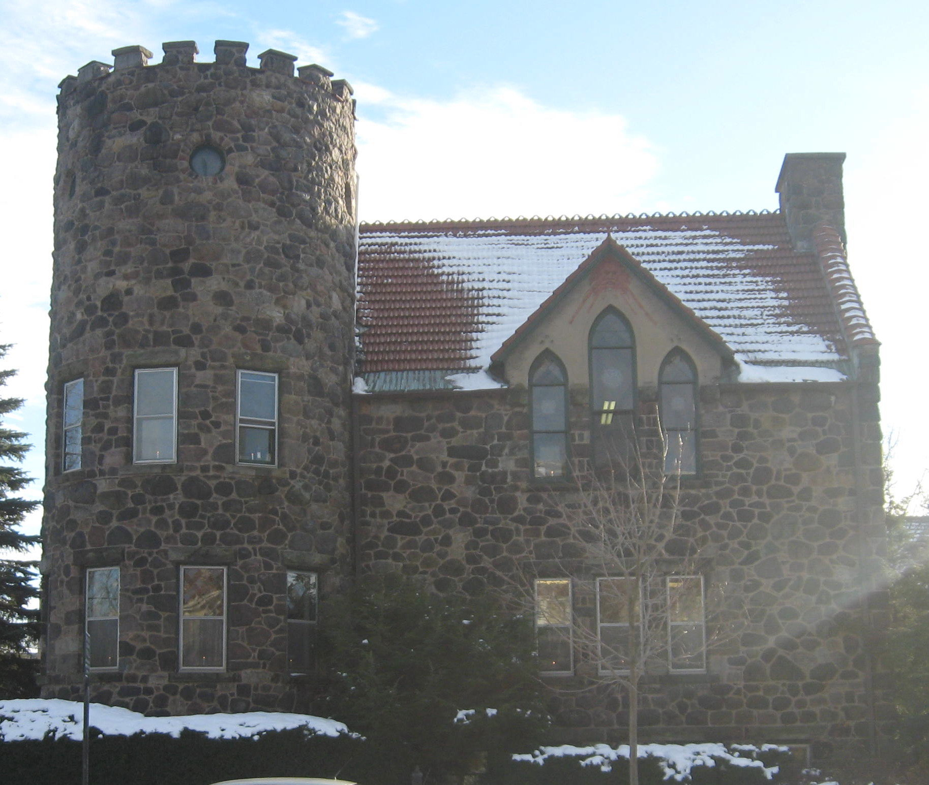 Roycroft building in East Aurora. Town Hall building